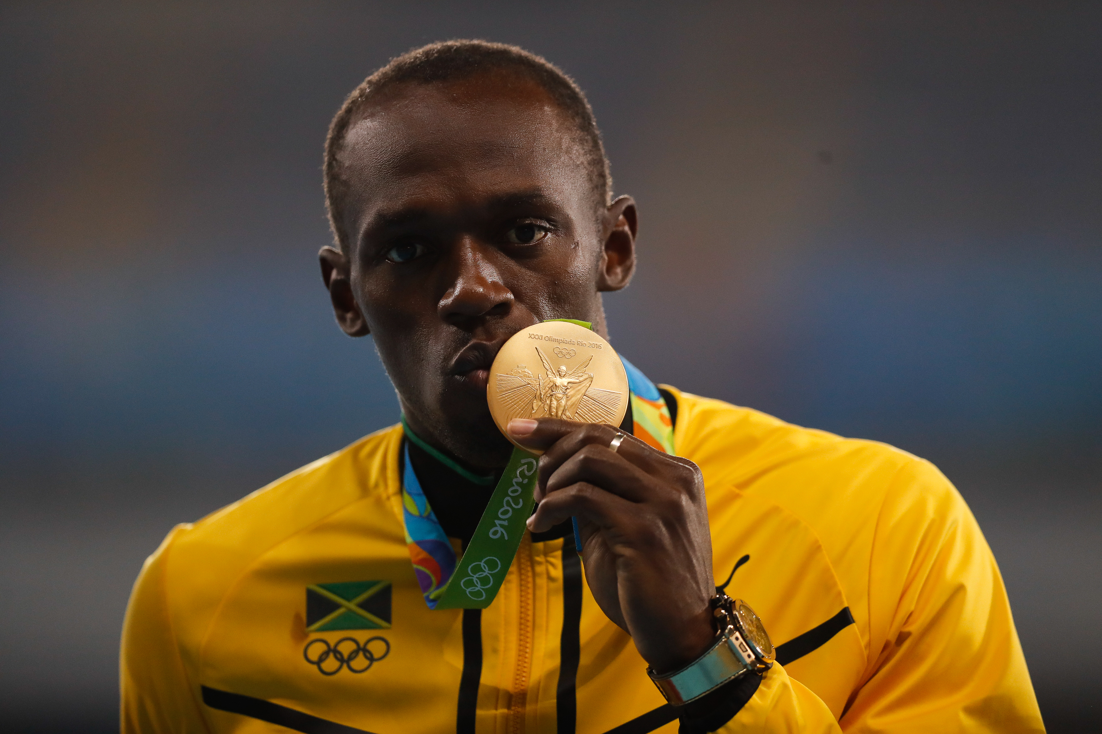 Rio de Janeiro - Usain Bolt recebe medalha pela vitória nos 200m rasos nos Jogos Rio 2016, no Estádio Olímpico. (Fernando Frazão/Agência Brasil)